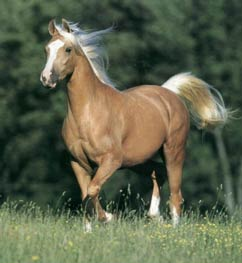 Photo of a Palomino horse.